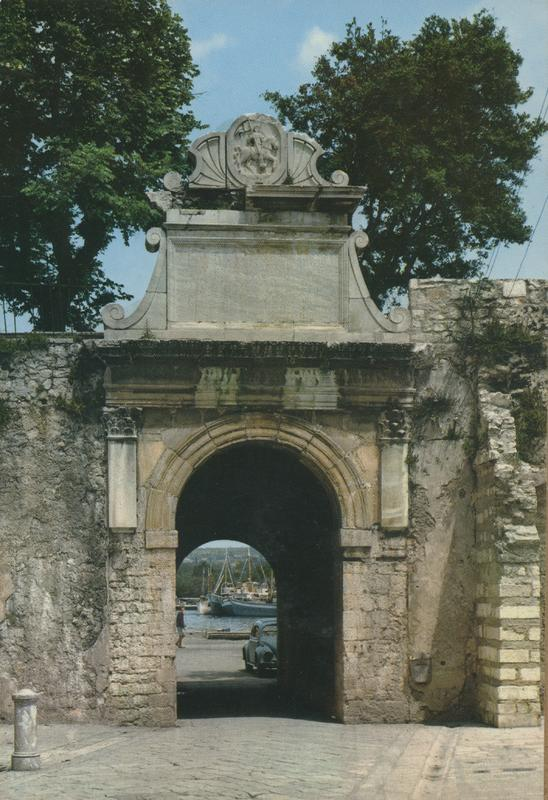 Sea Gate leading towards the Roman Forum